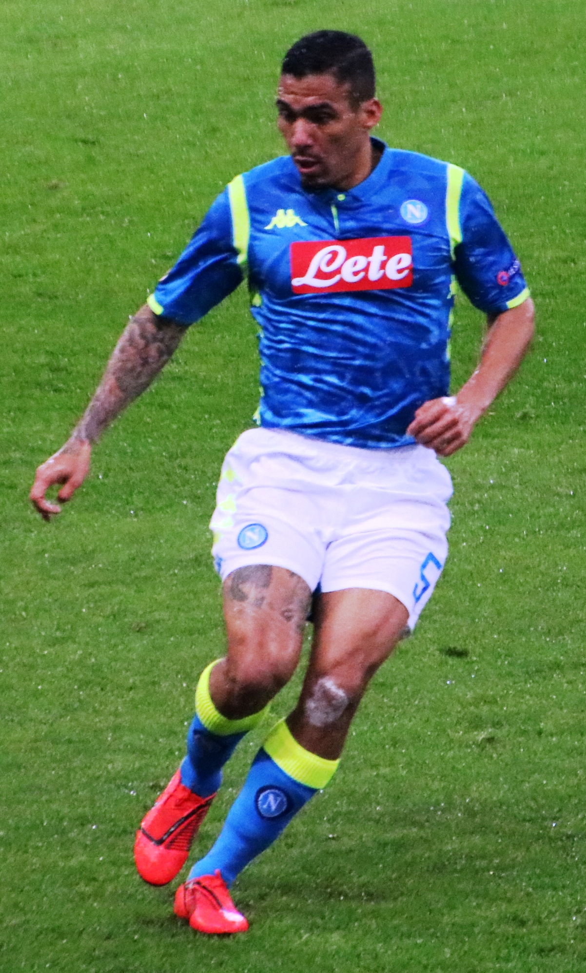 Euro League match round of 16 2nd leg